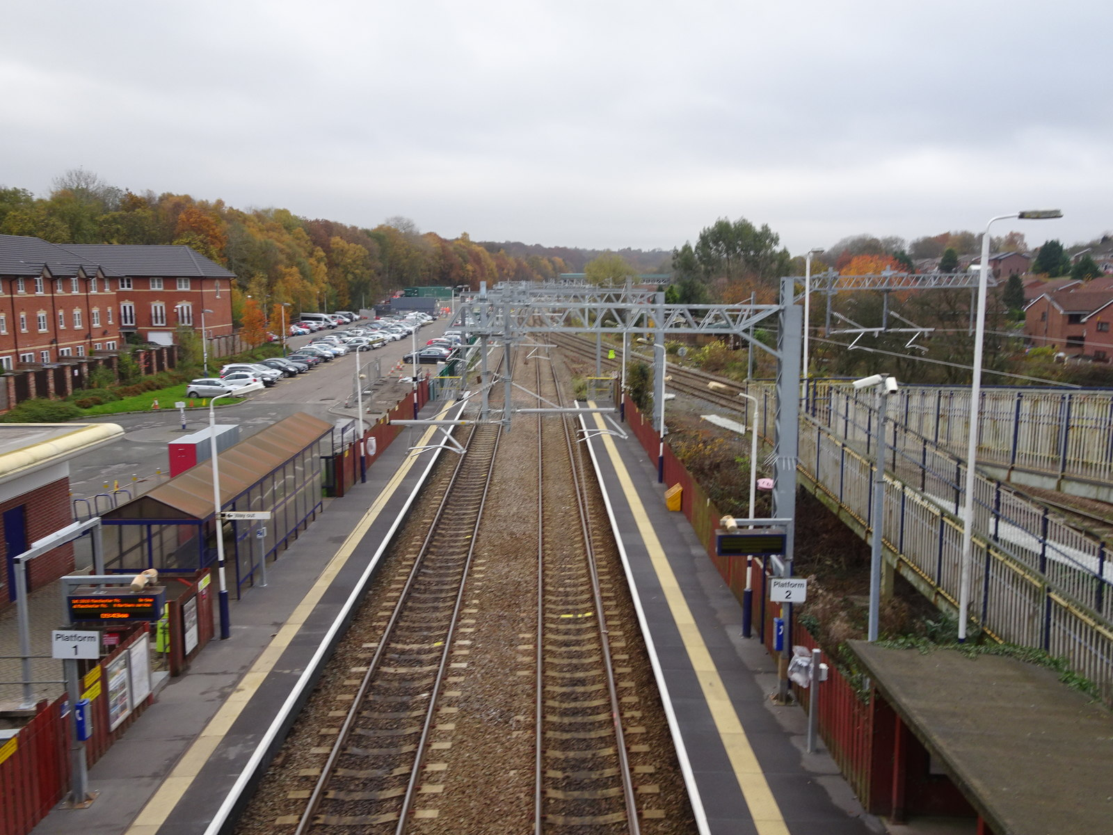 Lostock railway station, LancashireThe original Lostock Junction station was opened by the Lancashire and Yorkshire Railway in 1852 and lasted until 1966 with platforms on the Bolton-Preston line (seen here) and the Bolton-Wigan line (to the right). When the current station opened in 1988, platforms were only provided on the Preston line. View (north) east towards Bolton, a few months after the line was electrified.